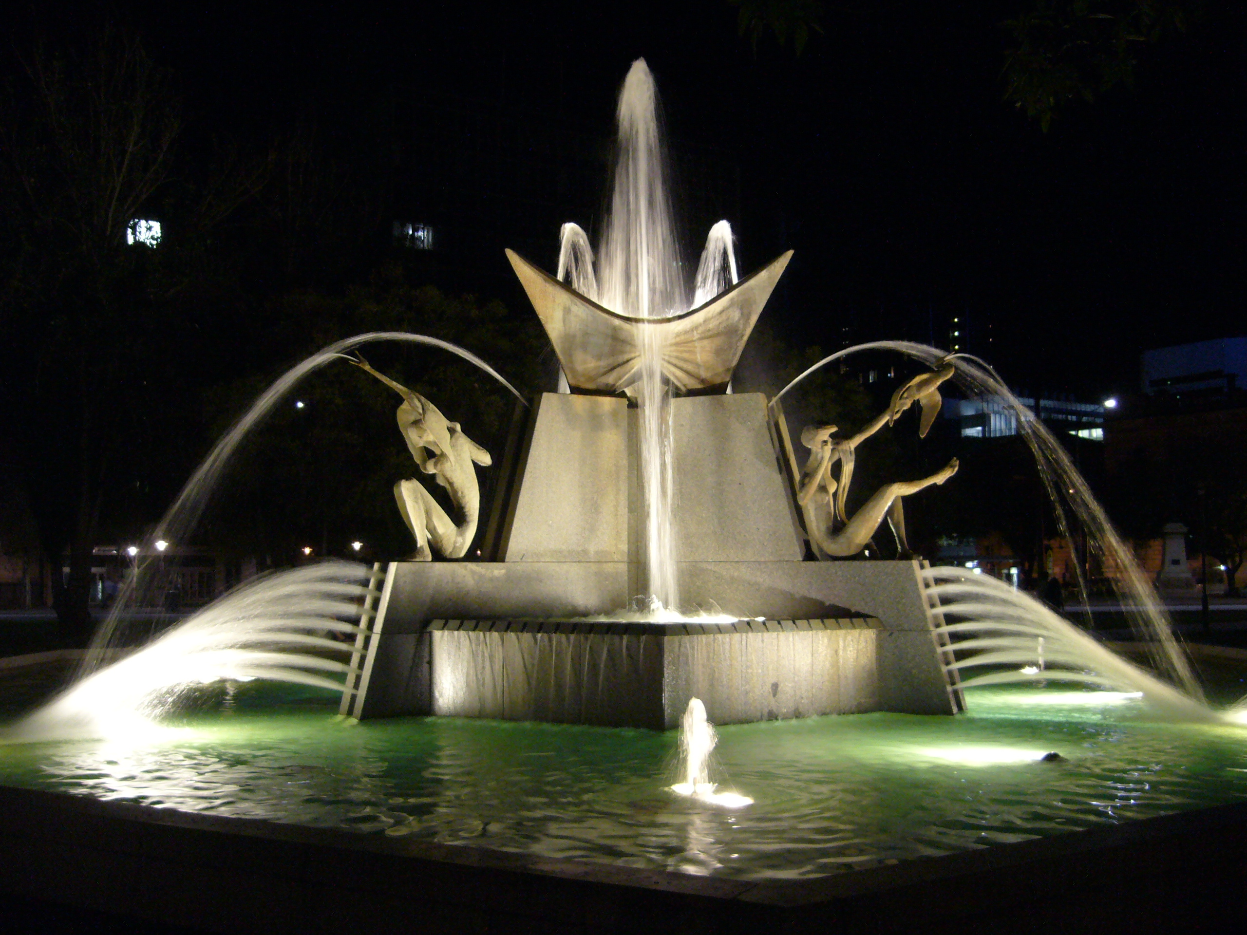 Adelaide's Victoria Square Fountain at night time